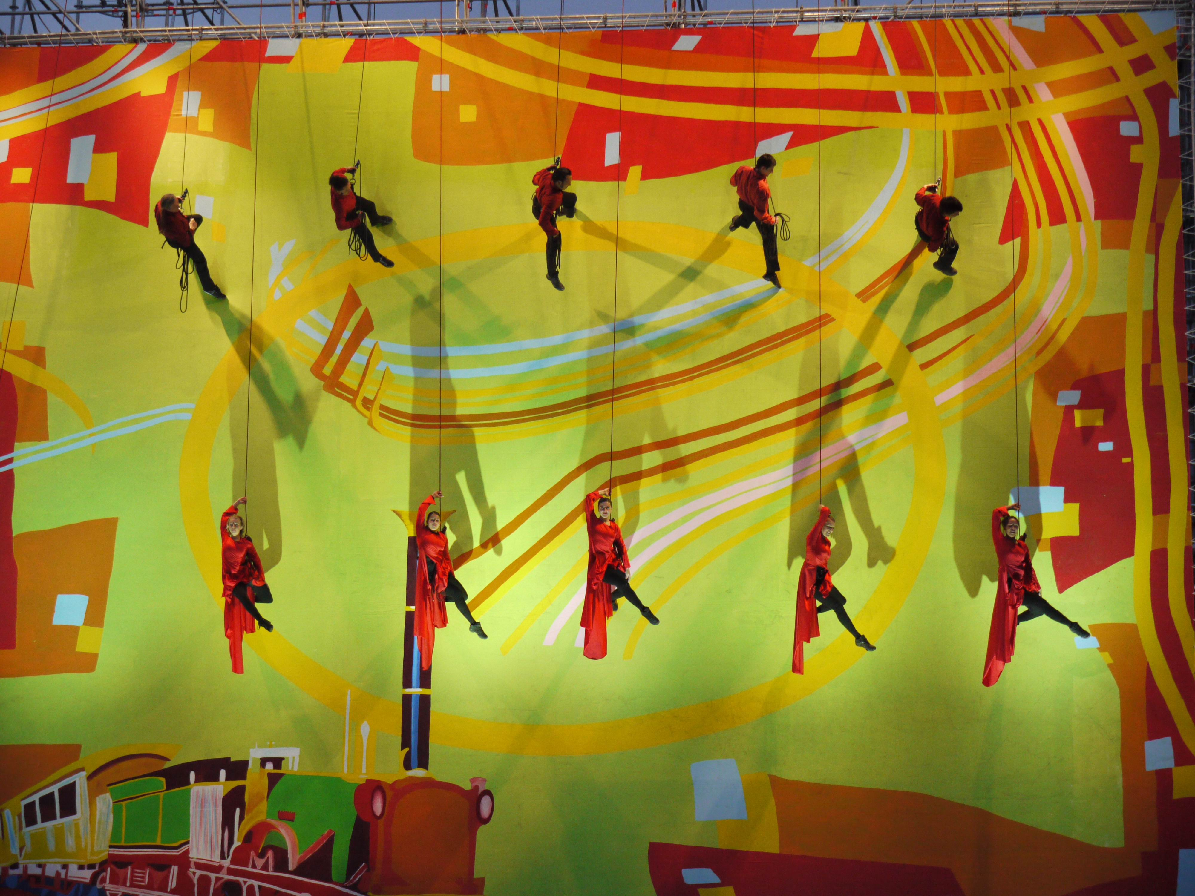 Blaue Nacht ("Night in Blue") in Nuremberg, Germany in May 2010: Compagnie_Les_Passagers